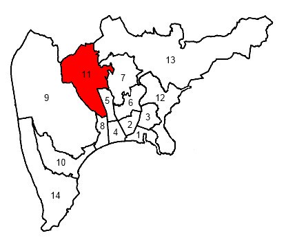 Location of canton of Nice-11 in the city of Nice, Alpes-Maritimes, France.